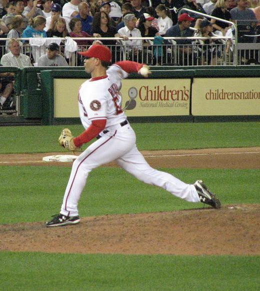 Saul Rivera pitches against the Los Angeles Dodgers on August 26, 2008 at Nationals Park. 19:15, 30 November 2008 . . Davidm8985 . . 520×583 (77 KB)